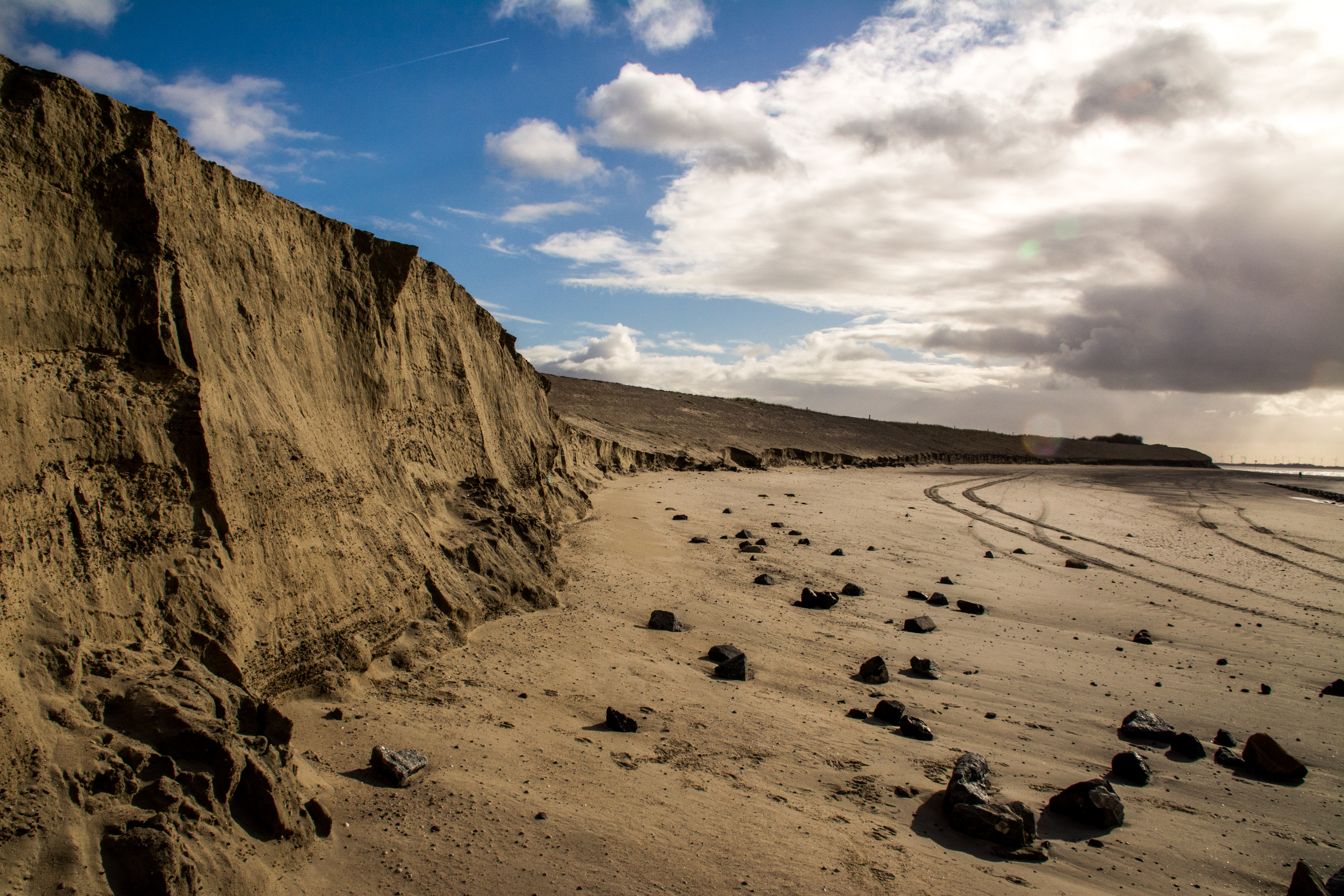 Sturmflutschäden Spiekeroog